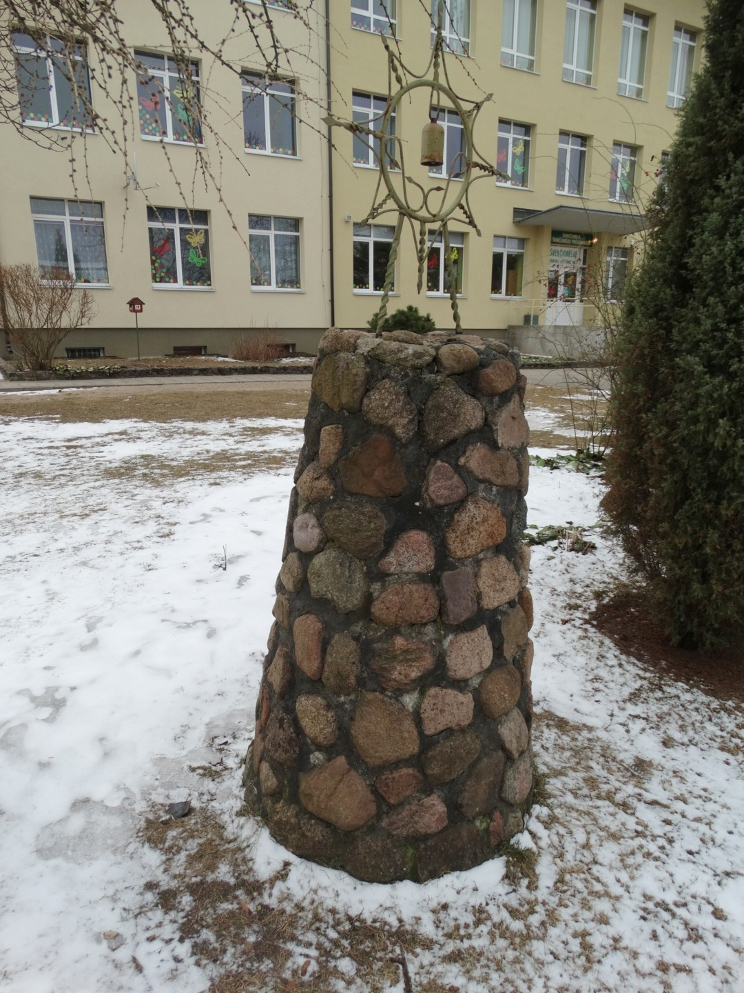 Progymnasium, Švenčionėliai, Lithuania